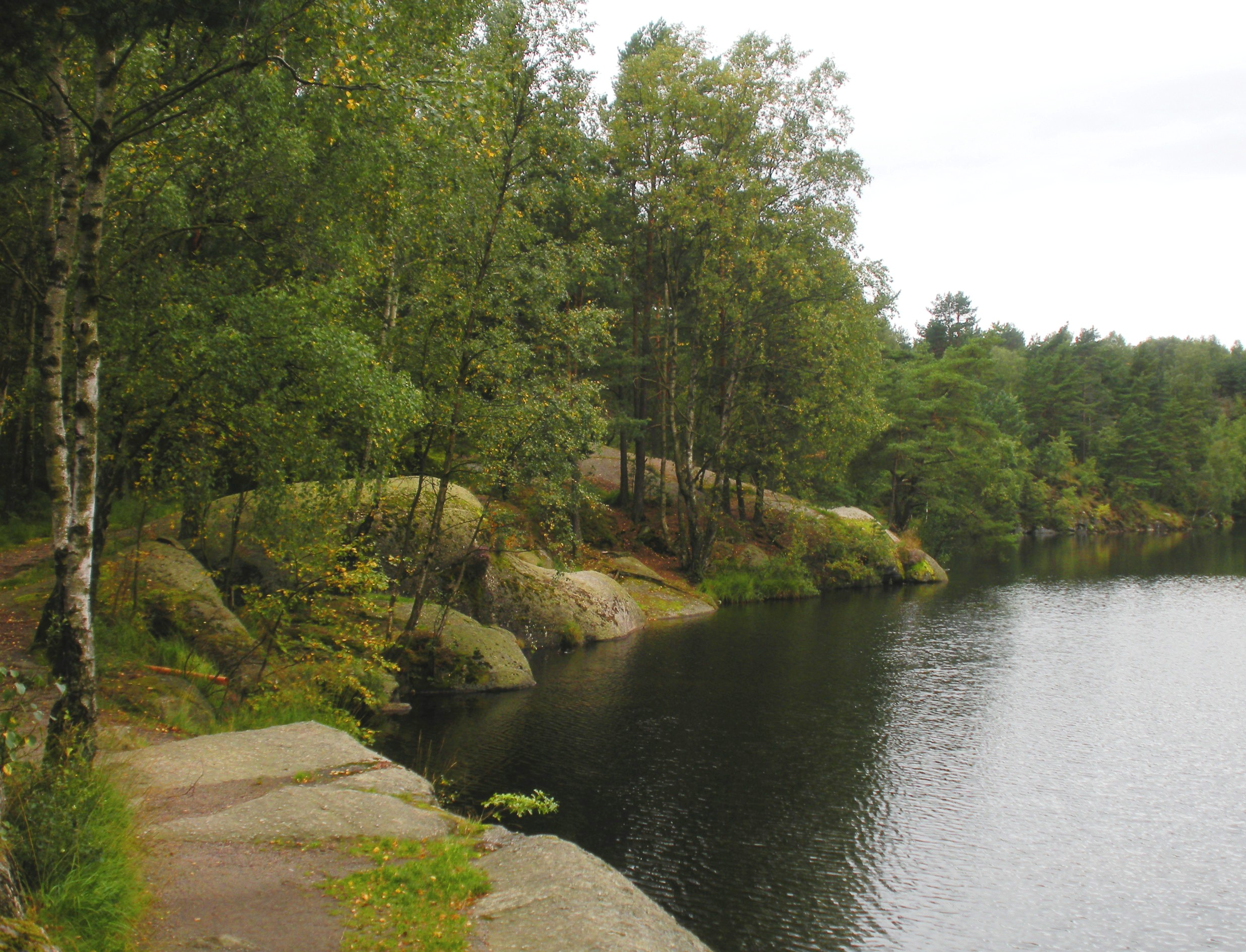 Lake Bergsjön in Gothenburg, Sweden Jezioro Bergsjön w Göteborgu w Szwecji